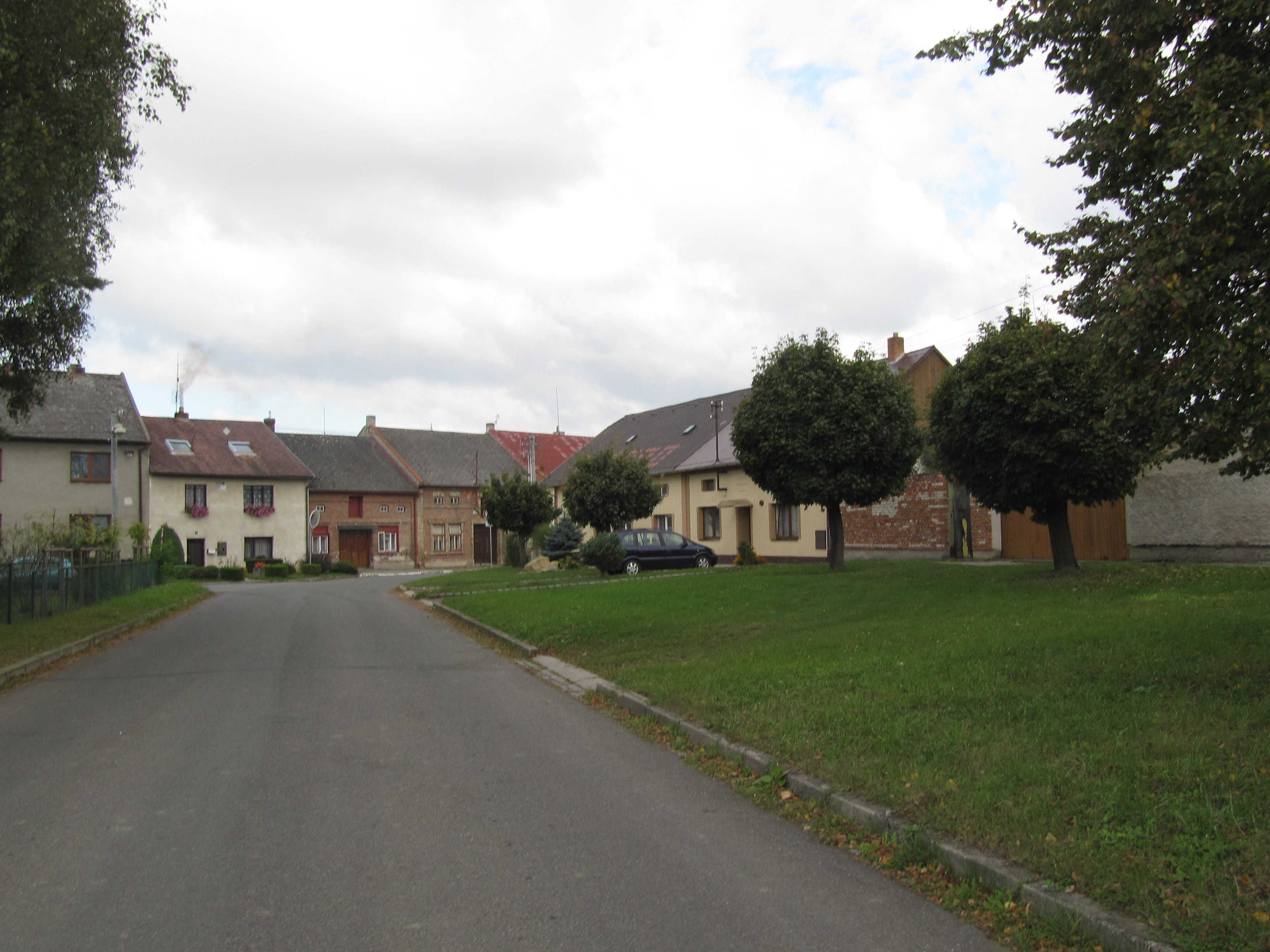 Holešov in Kroměříž District, part Količín, Czech Republic. Common.